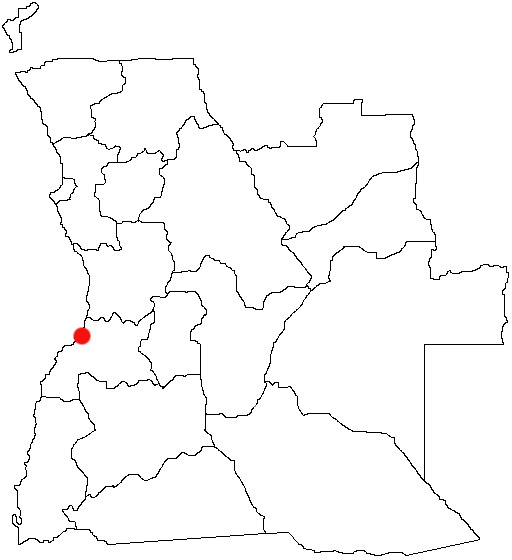 Lobito, Angola Location Map; created with the GIMP. Made by User:Acntx.